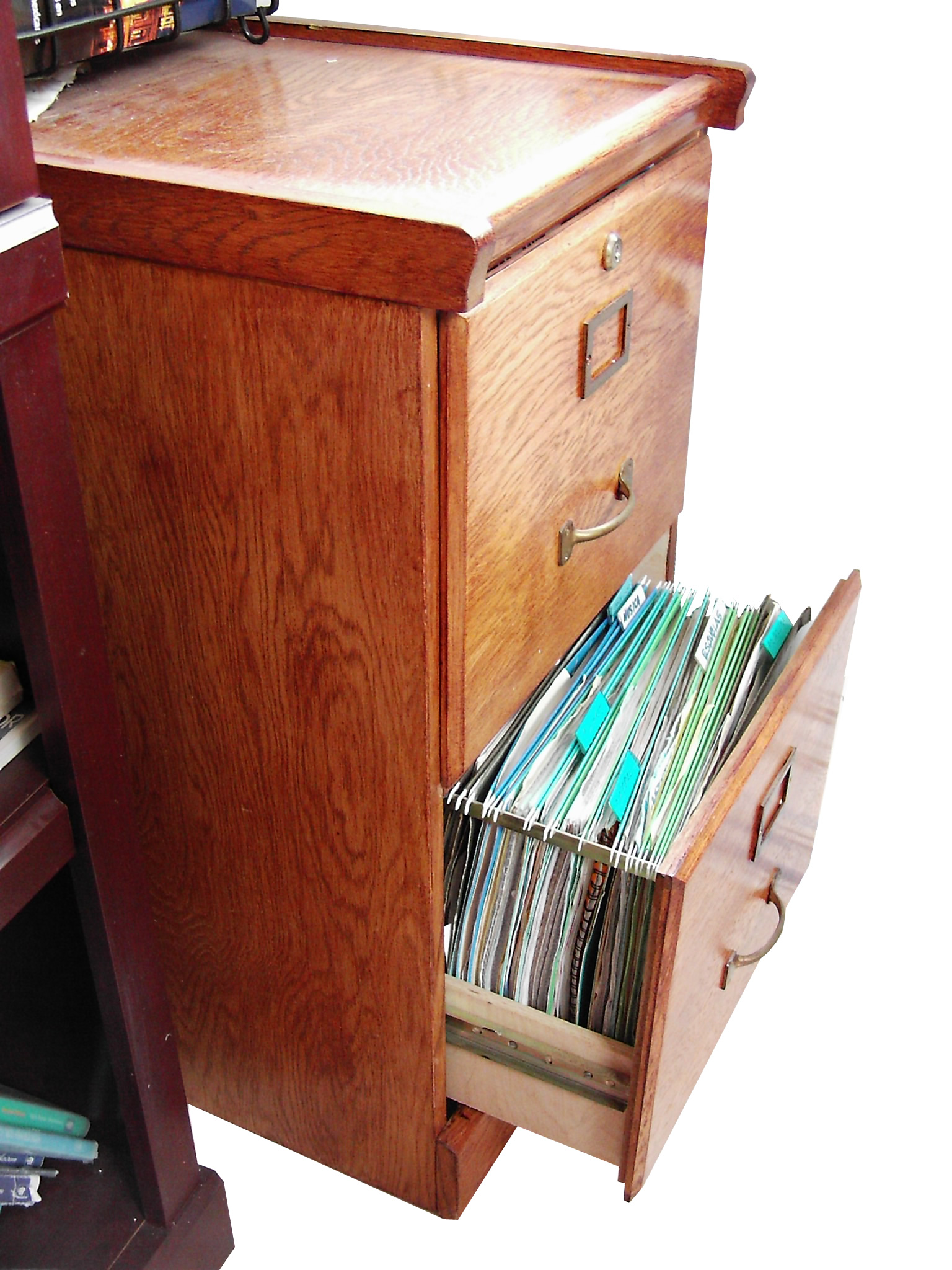 Wooden File Cabinet with drawer open. Taken by me.